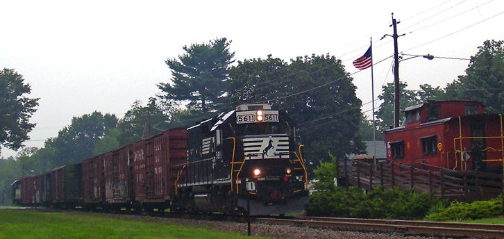 Photographed by Daniel Case at the NY 207 grade crossing 2006-07-21